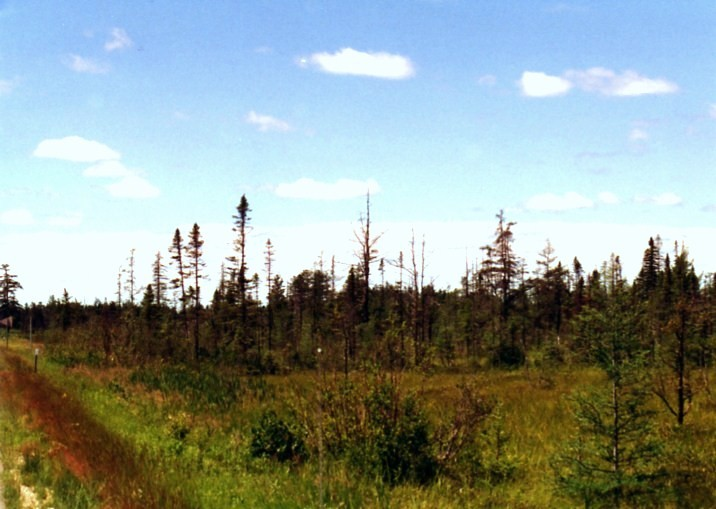 Canadian Taiga (Boreal forest).